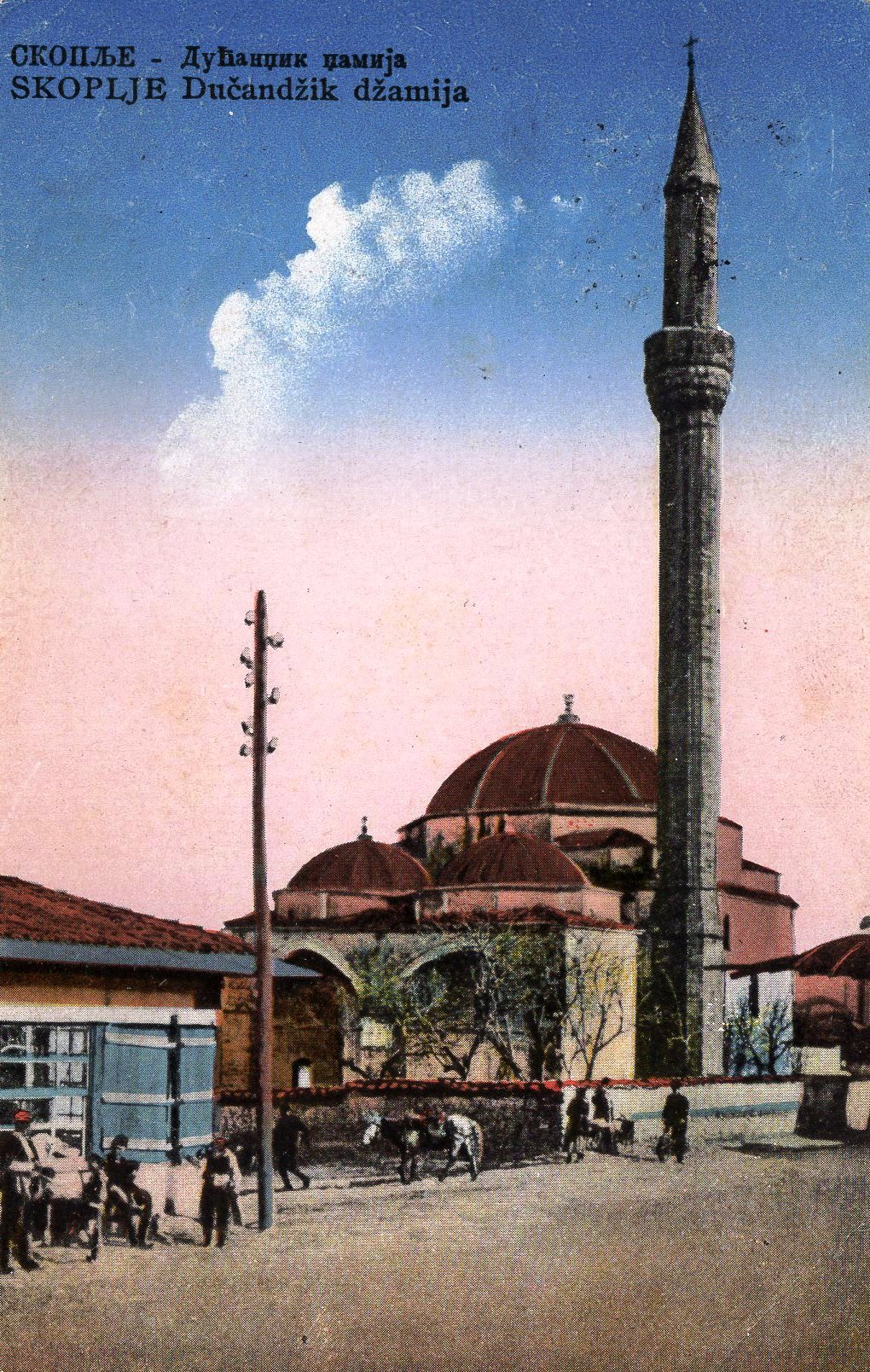 Postcard from Skopje, with Dukandžiik Mosque, 1930 This media file is produced by Wikipedian in Residence in Category:Wikipedian in Residence at DARM in 2016.